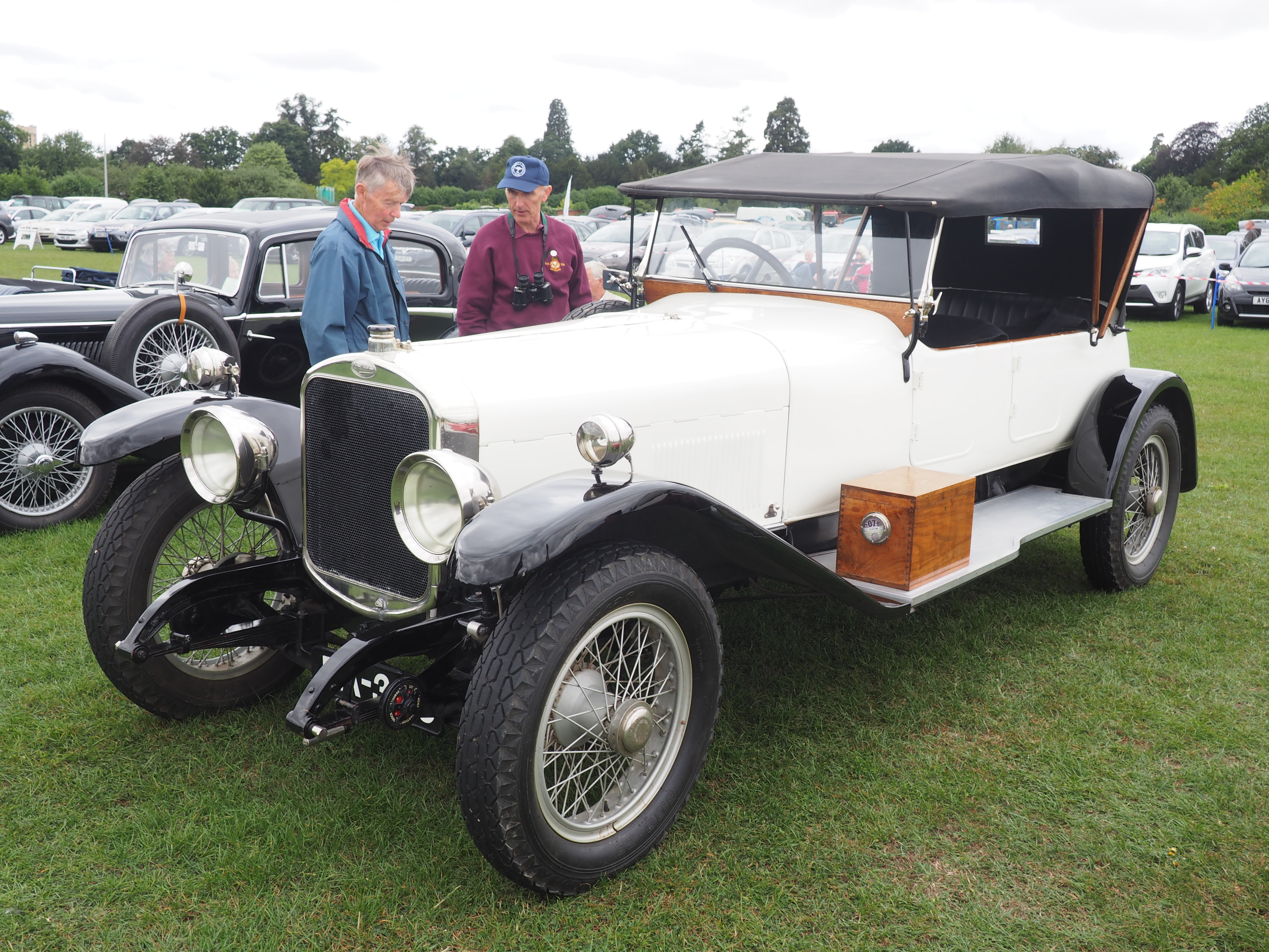 Sunbeam 21/40 or 24/60 or Shuttleworth Collection